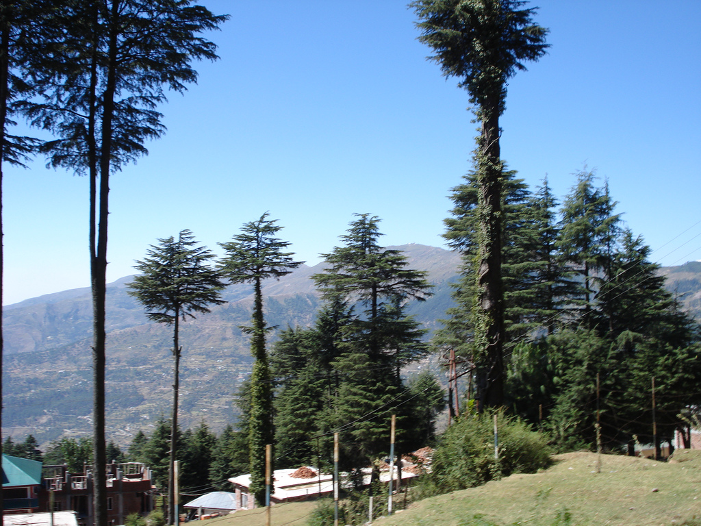 A view of the mountains from Patnitop